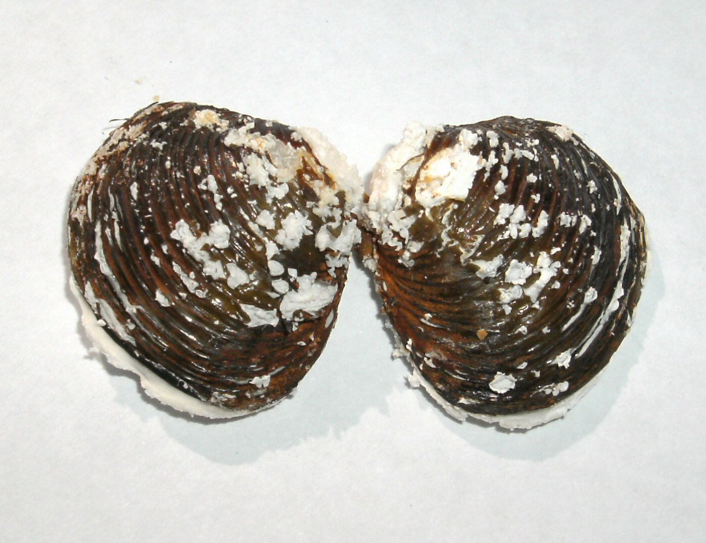 Effects of acidic vapors on a mollusk shell (Corbicula fluminea, a freshwater Bivalve). The efflorecence is clearly visible in this specimen. This shell was exposed to an excessively humid and acidic medium (acetic acid) for some weeks.